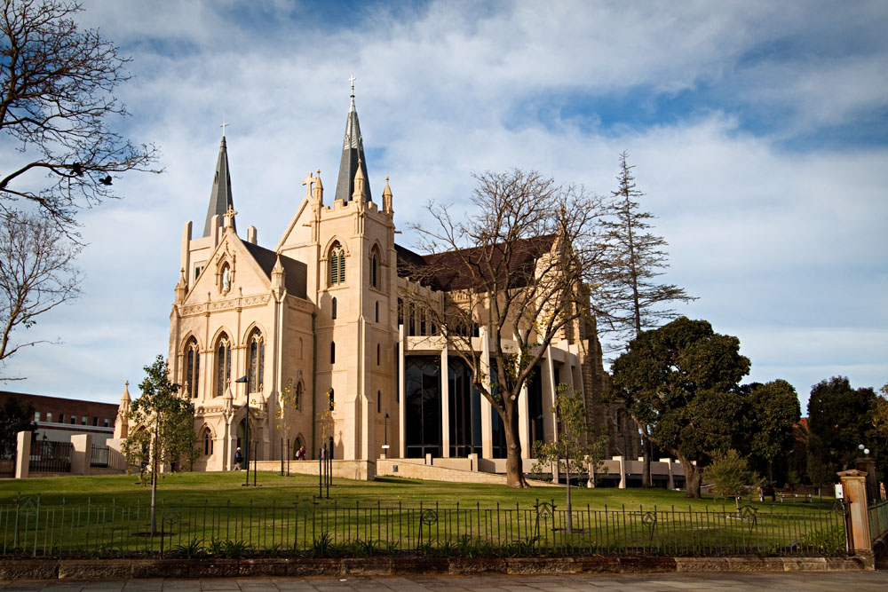 St Mary's Cathedral, East Perth, Western Australia, after completion of the repairs/expansion